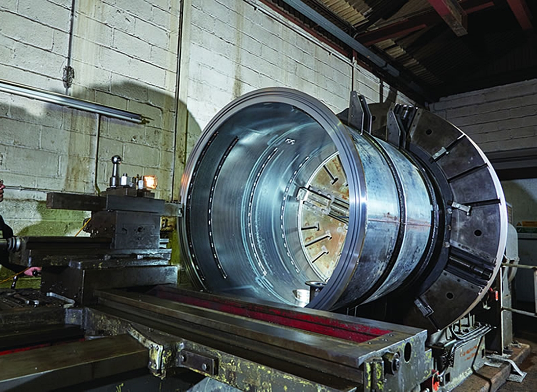 Blackhill